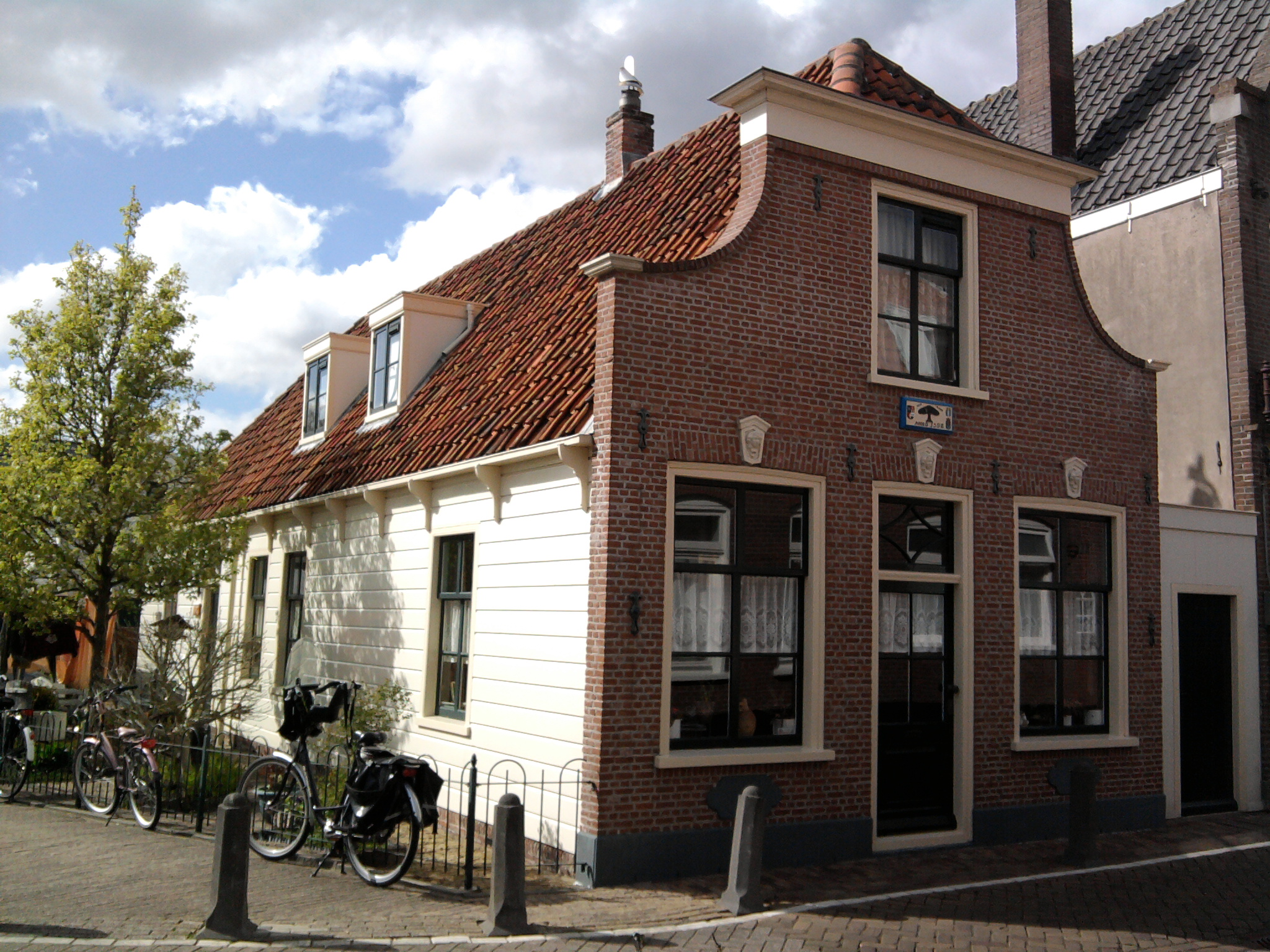 An old house in the village of Sloten